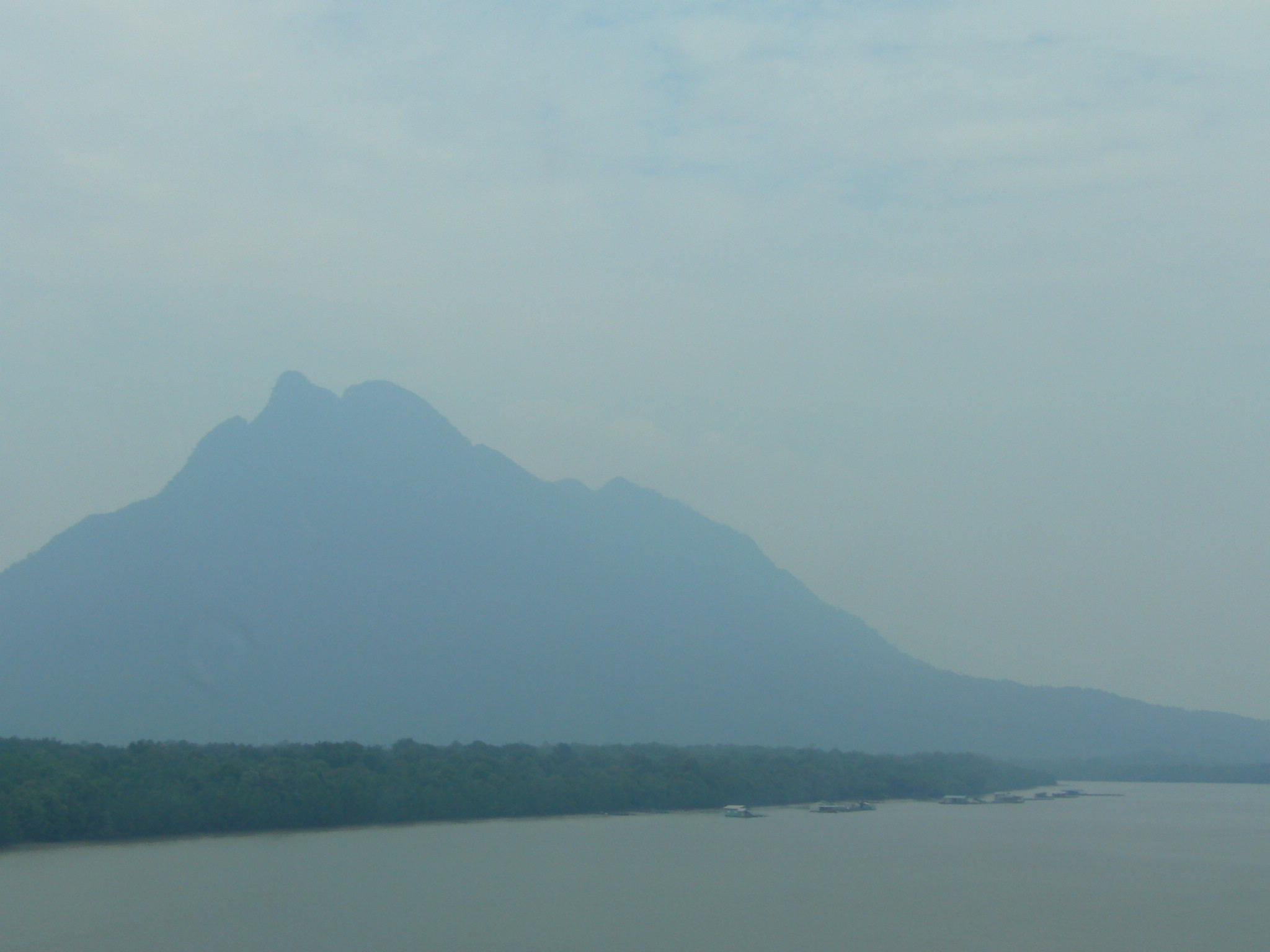 Photo of Mount Santubong and Sarawak River. Taken by me on a recent trip.